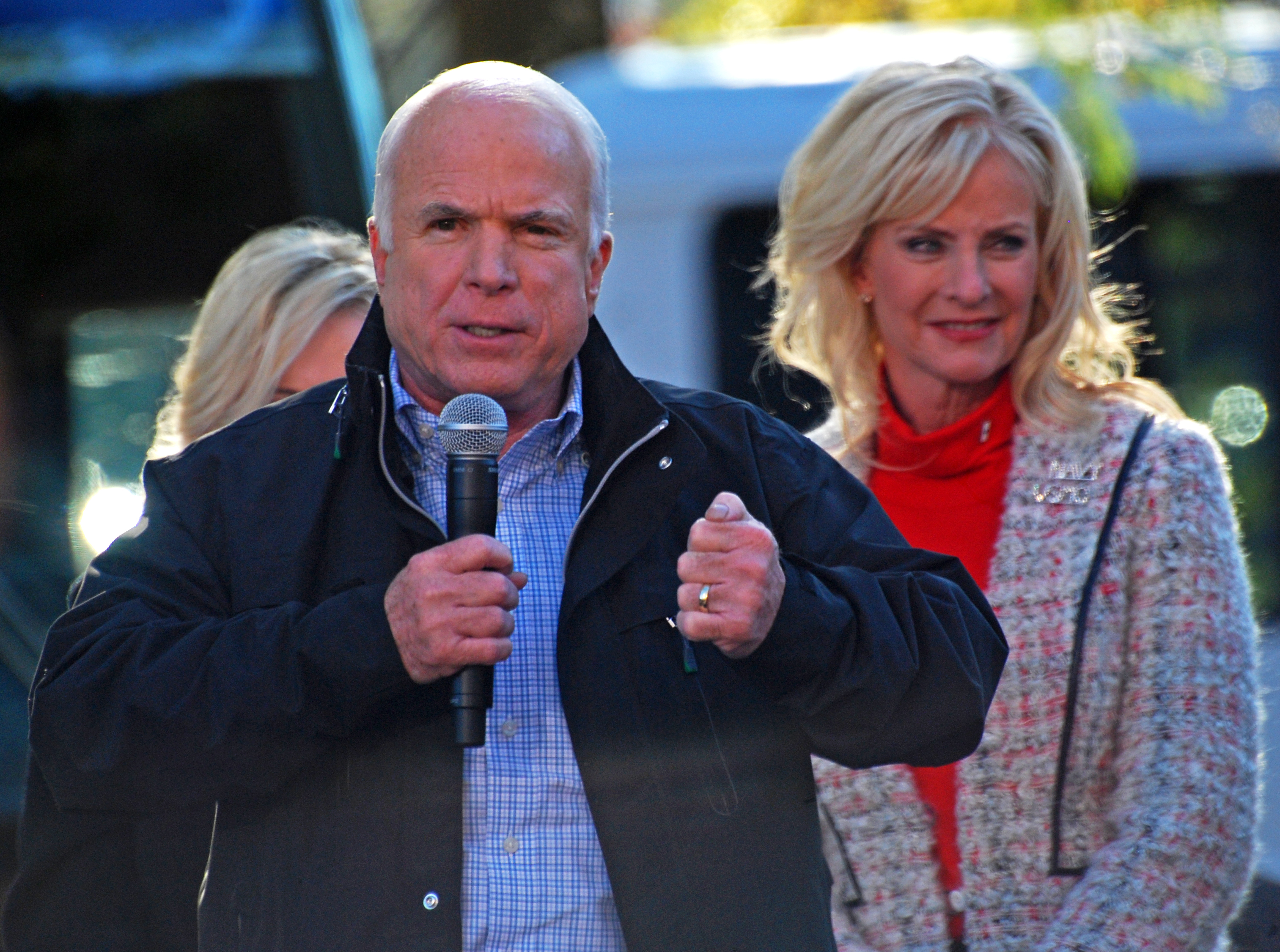 John McCain in Elyria today